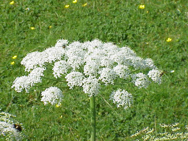 Species: Laserpitium latifolium Family: Apiaceae Image No. 3